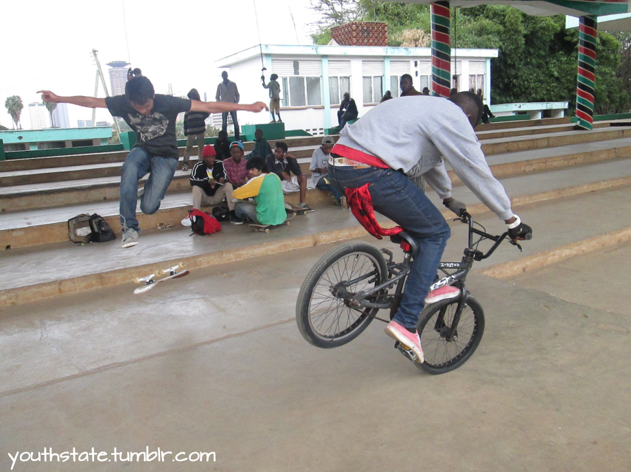 Legendary Skateboarding's Victor Mumali pulling a 360 flip and Ian pulling a bmx flatland trick.